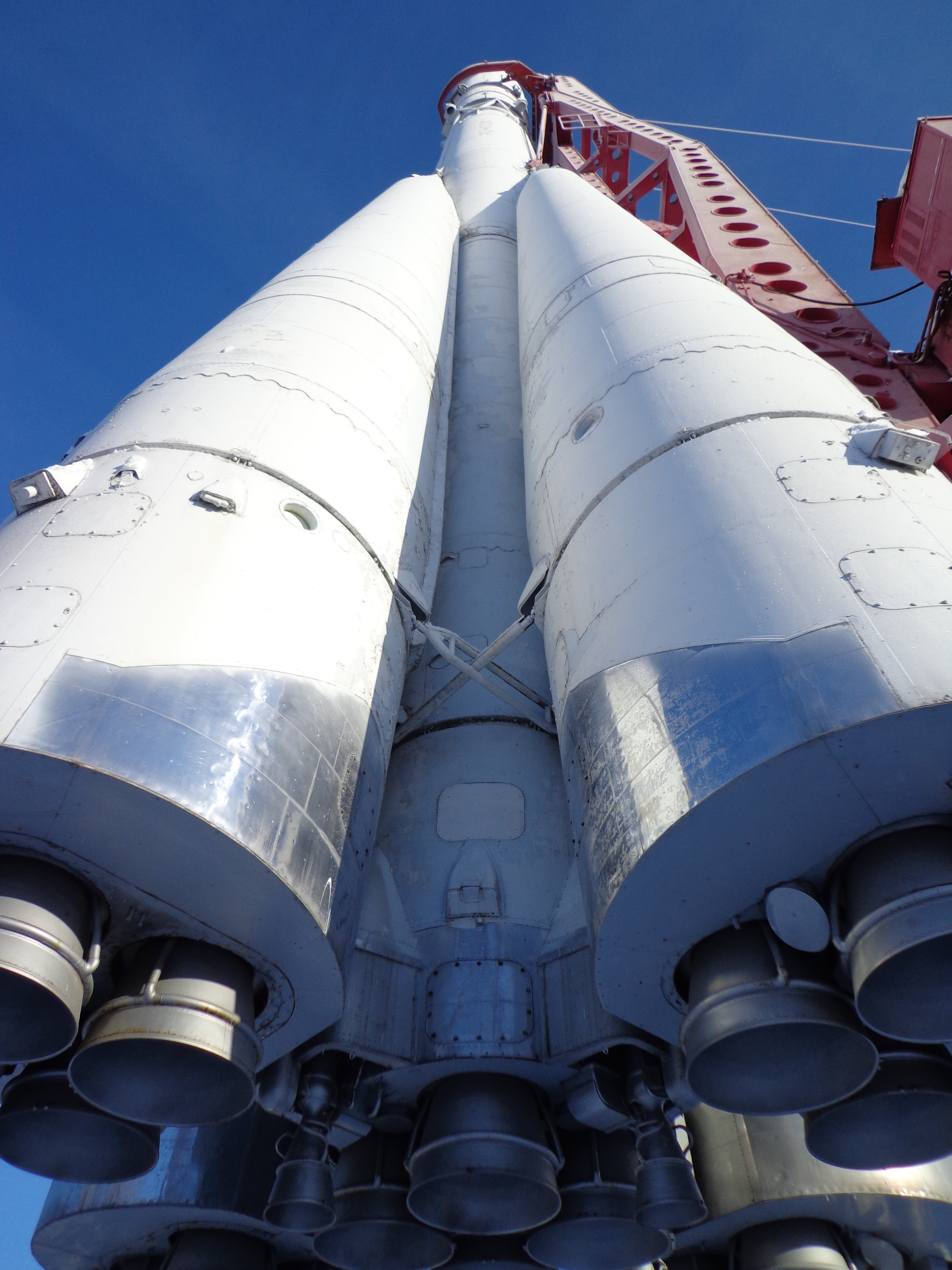 Vostok rocket on Tsiolkovsky Museum park, Kaluga